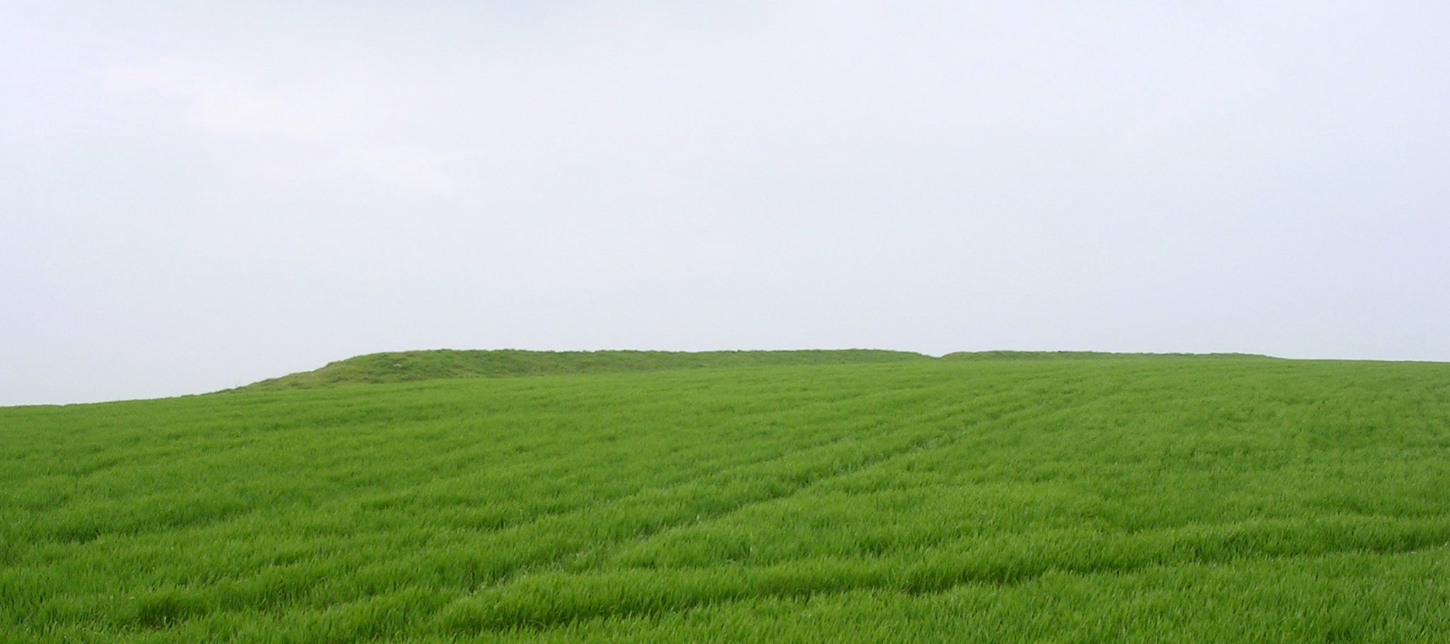 The Long Bredy bank barrow on Martin's Down, west Dorset. A neolithic earthwork nearly 200 metres long.